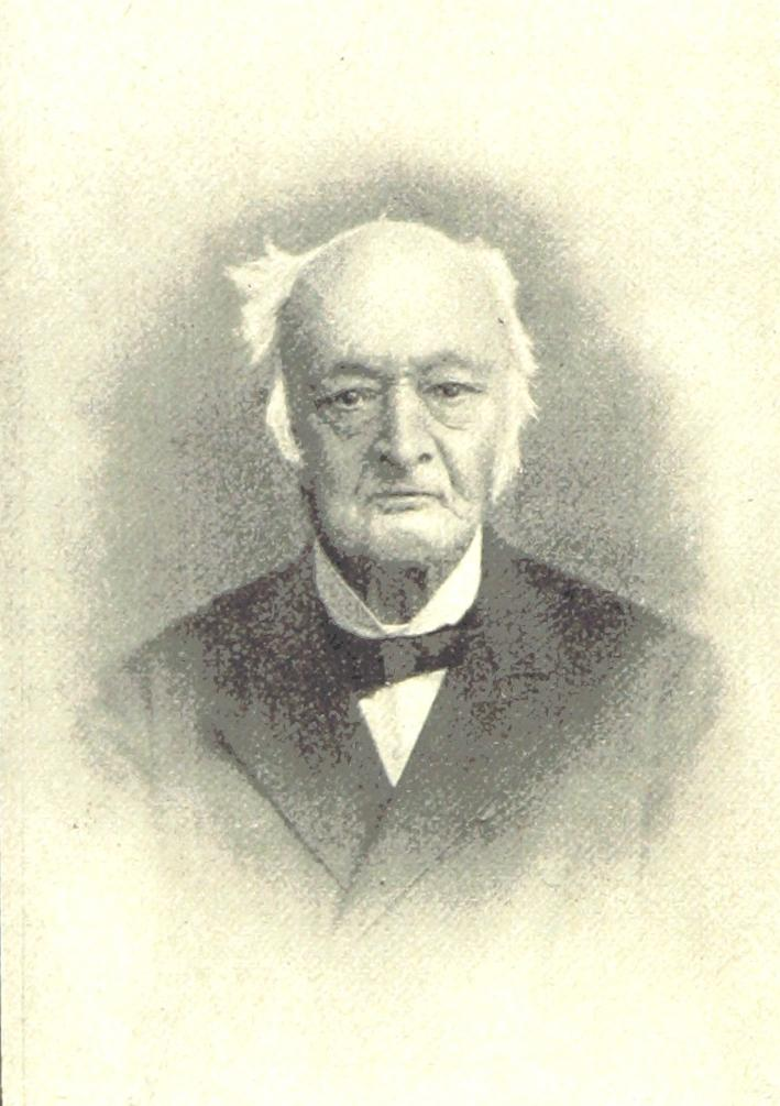 Melchior Ulrich Image taken from: Title: "Die Schweiz im neunzehnten Jahrhundert. Herausgegeben von schweizerischen Schriftstellern unter Leitung von P. Seippel" Author: SEIPPEL, Paul. Shelfmark: "British Library HMNTS 9305.h.2." Volume: 03 Page: 436 Place of Publishing: Lausanne Date of Publishing: 1899 Issuance: monographic Identifier: 003330970 Explore: Find this item in the British Library catalogue, 'Explore'. Download the PDF for this book (volume: 03) Image found on book scan 436 (NB not necessarily a page number) Download the OCR-derived text for this volume: (plain text) or (json) Click here to see all the illustrations in this book and click here to browse other illustrations published in books in the same year.